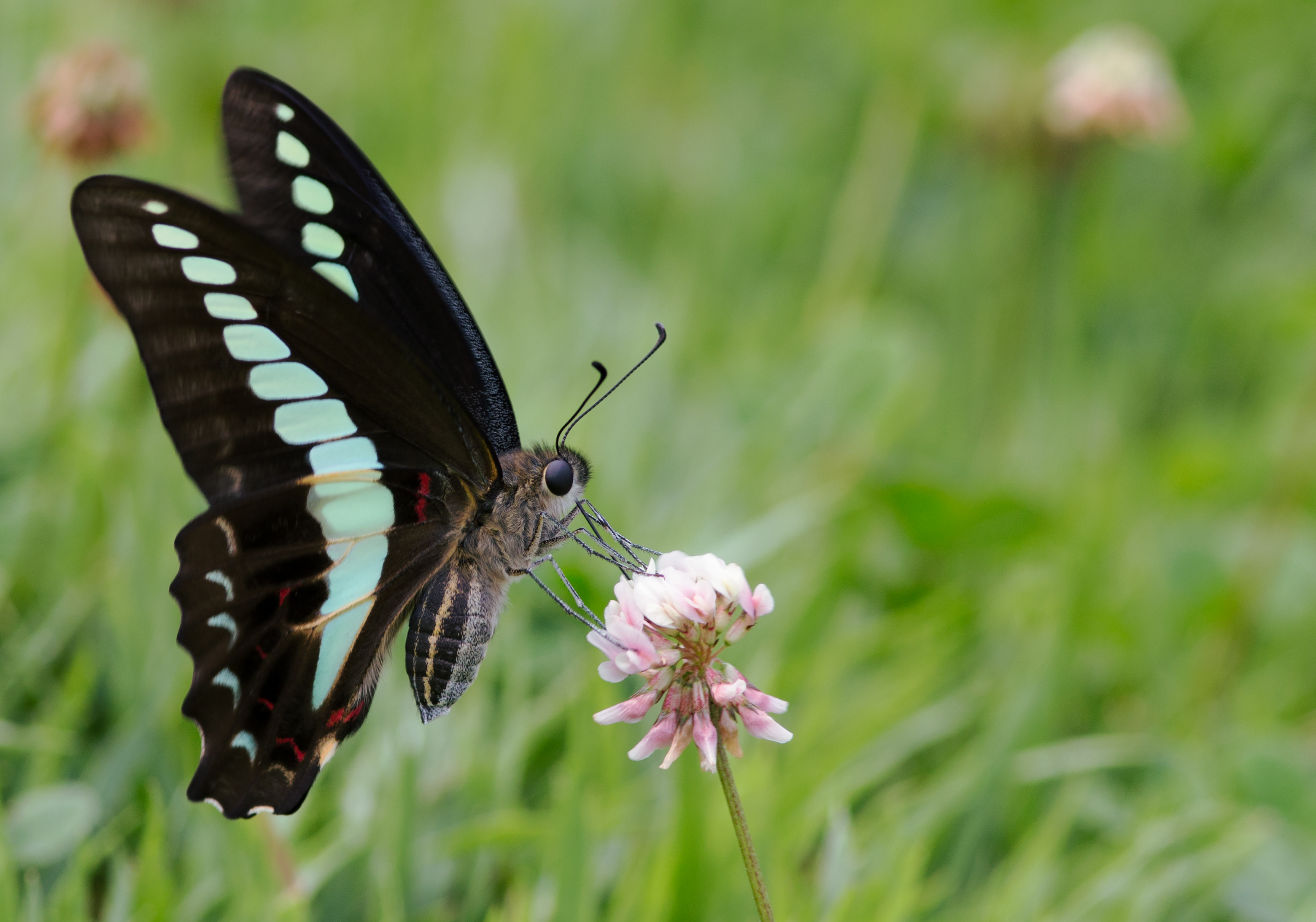 Common bluebottle, taken at Keitakuen.